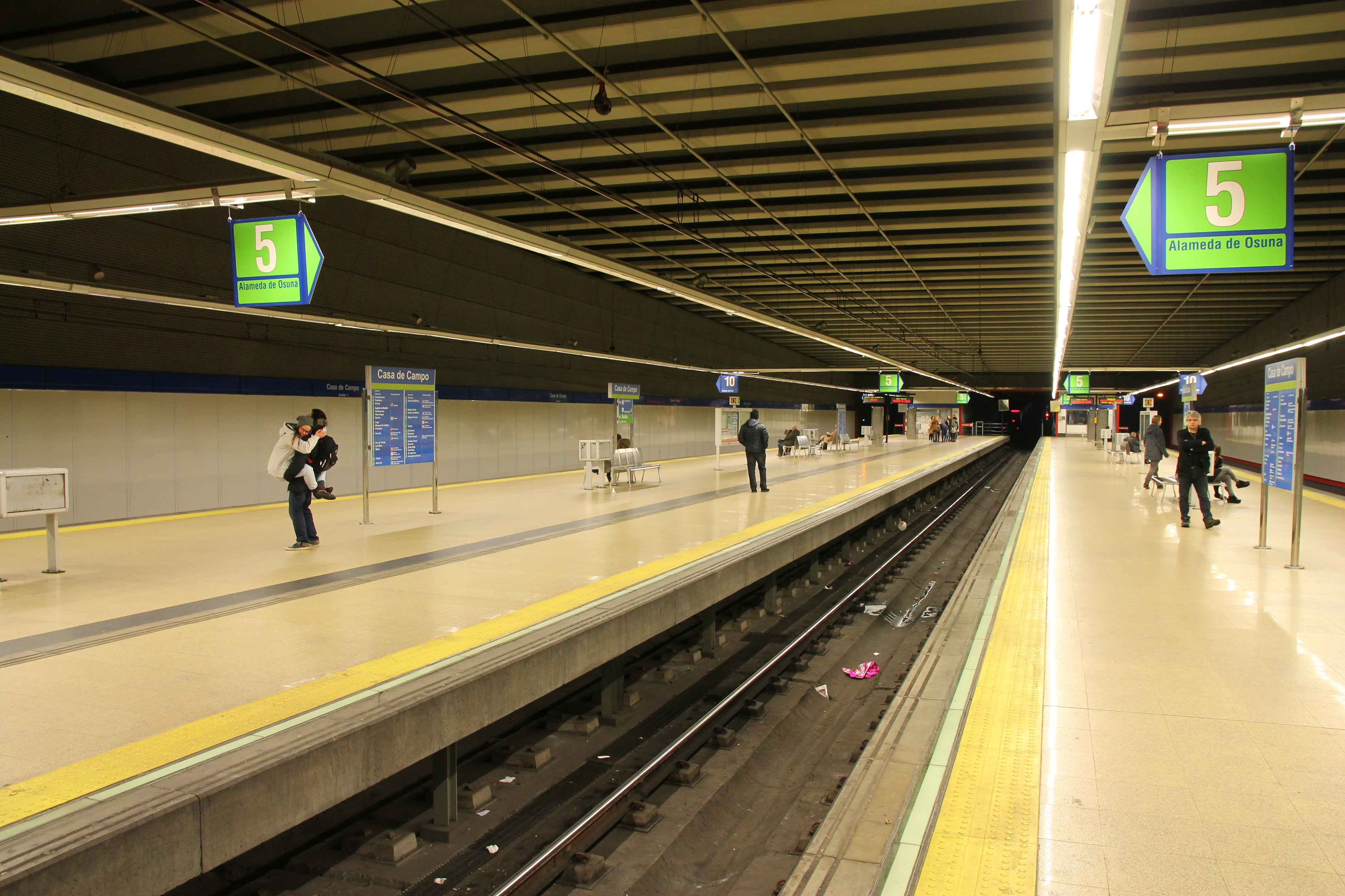 Casa de Campo metro station, Madrid